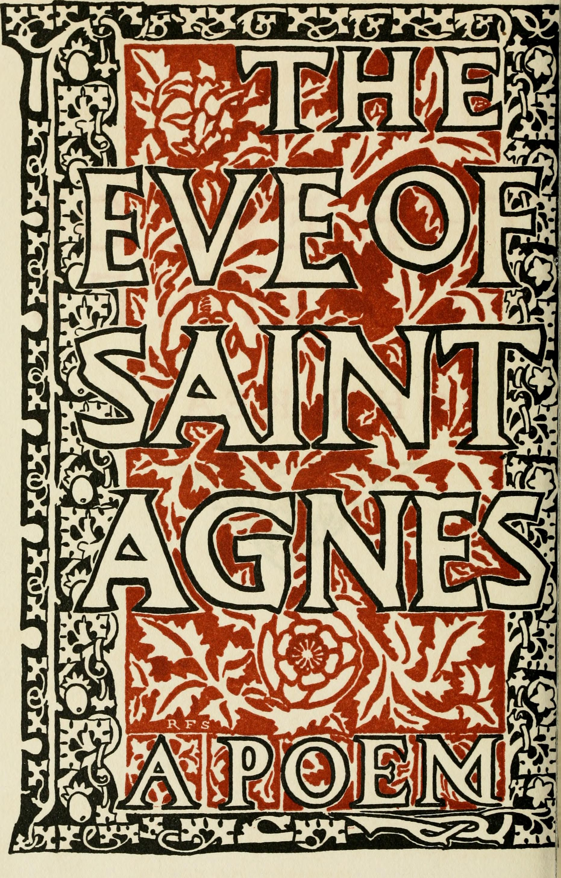 Title: The eve of St. Agnes : a poem Year: 1900 (1900s) Authors: Keats, John, 1795-1821 R.R. Donnelley and Sons Company, printer Seymour, Ralph Fletcher, 1876-1966, publisher and book designer Subjects: Publisher: Chicago Illinois : Published at the Fine Arts Building ... by Ralph Fletcher Seymour Text Appearing Before Image: ' Text Appearing After Image: '